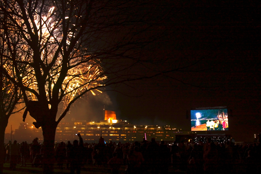 The fireworks, the ship and the big screen